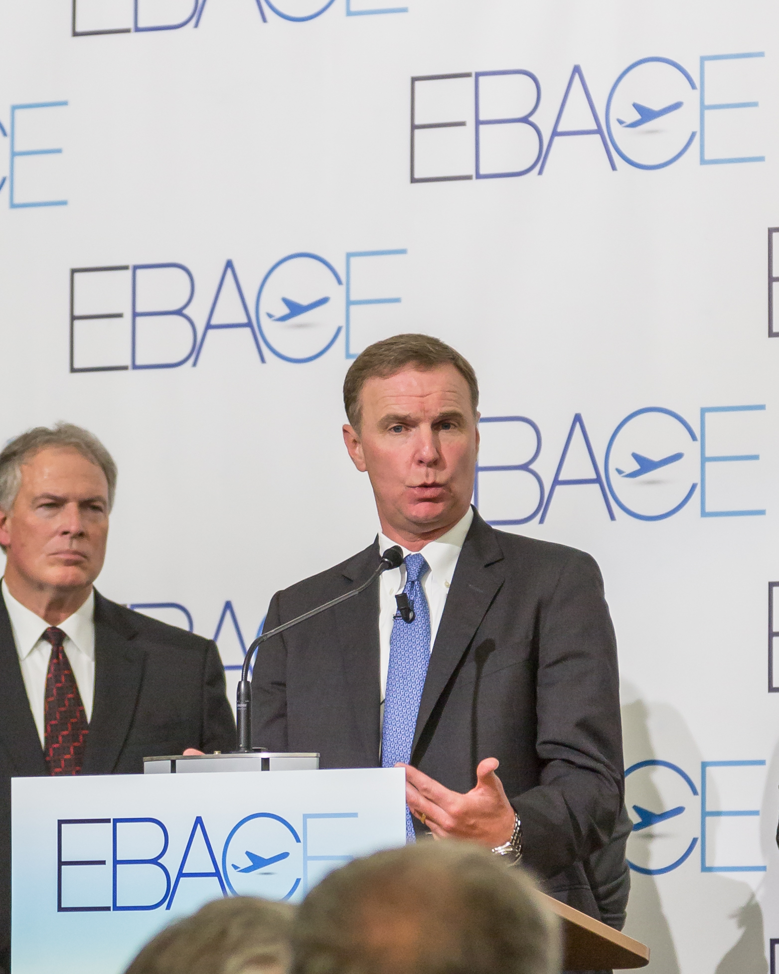 Media luncheon, EBACE 2018